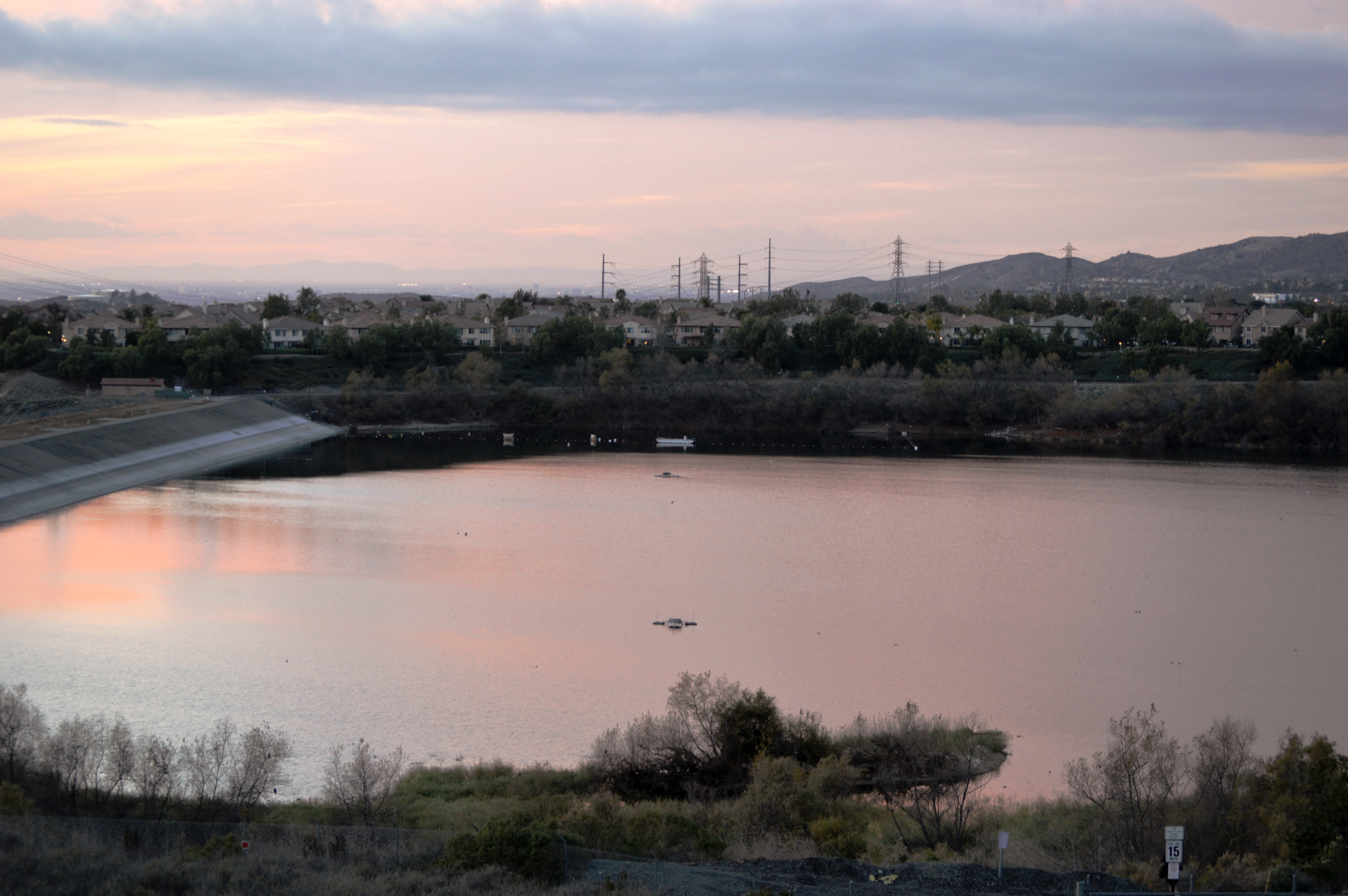 Oso Lake shortly after sunset.